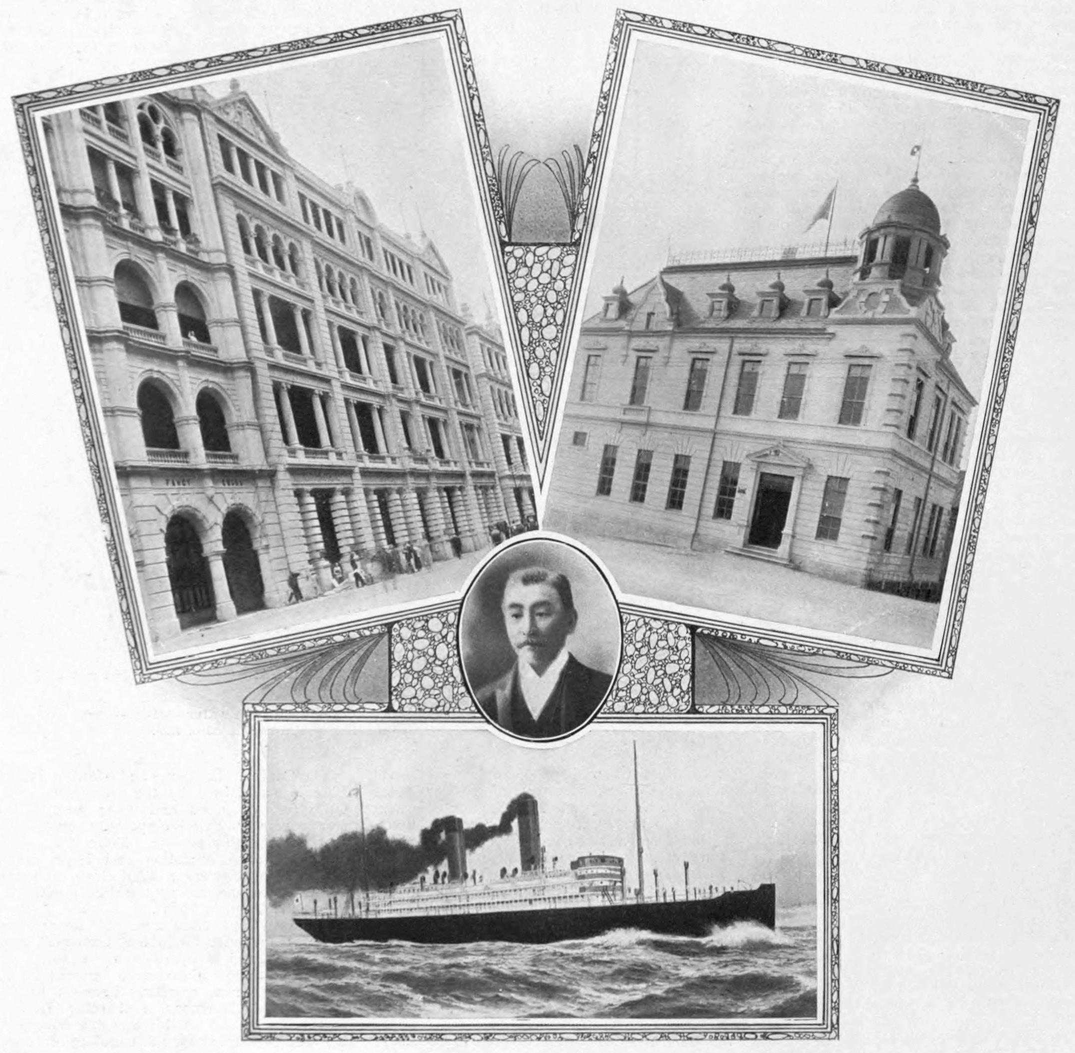 toyo kisen kaisha